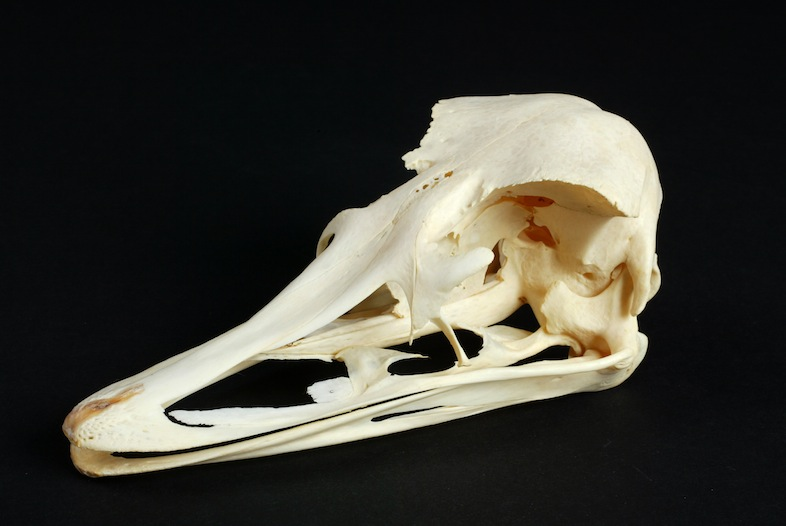 An ostrich skull (Struthio camelus) in the permanent collection of The Children’s Museum of Indianapolis